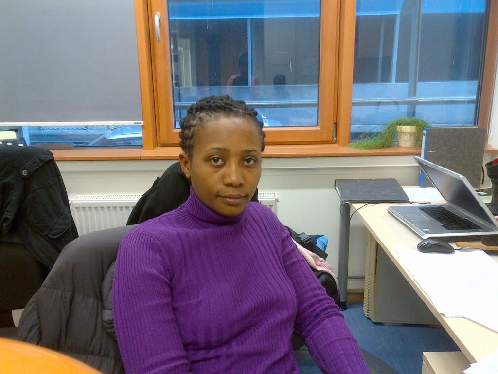 Dr. Fausta profile picture